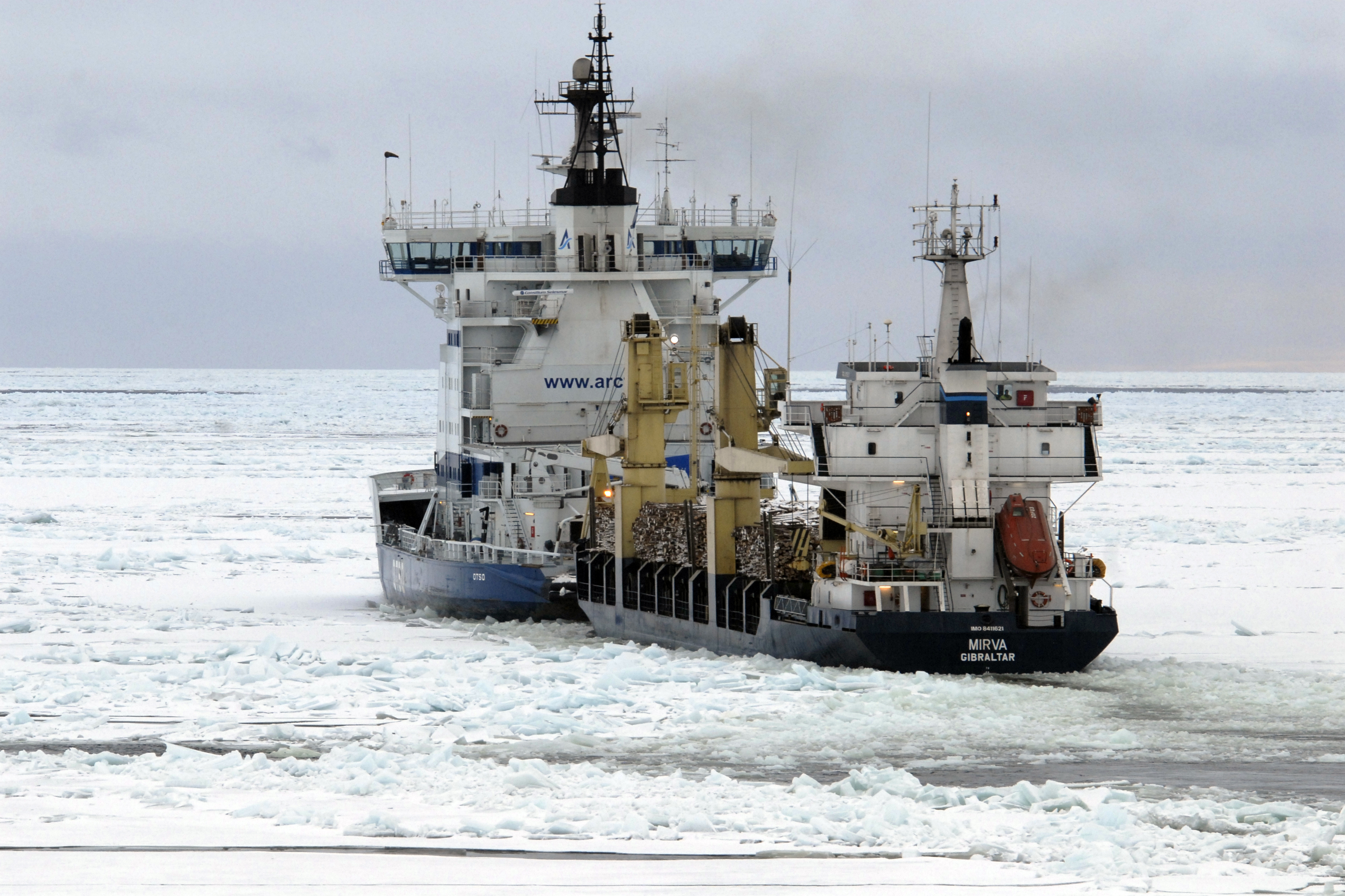 Finnish icebreaker Otso escorting merchant ship Mirva (IMO 8411621) in the Gulf of Bothnia.